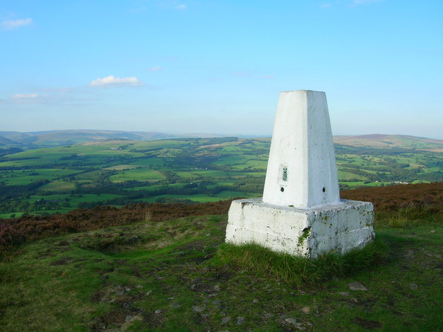 Trig point at the summit of Longridge Fell, Lancashire.